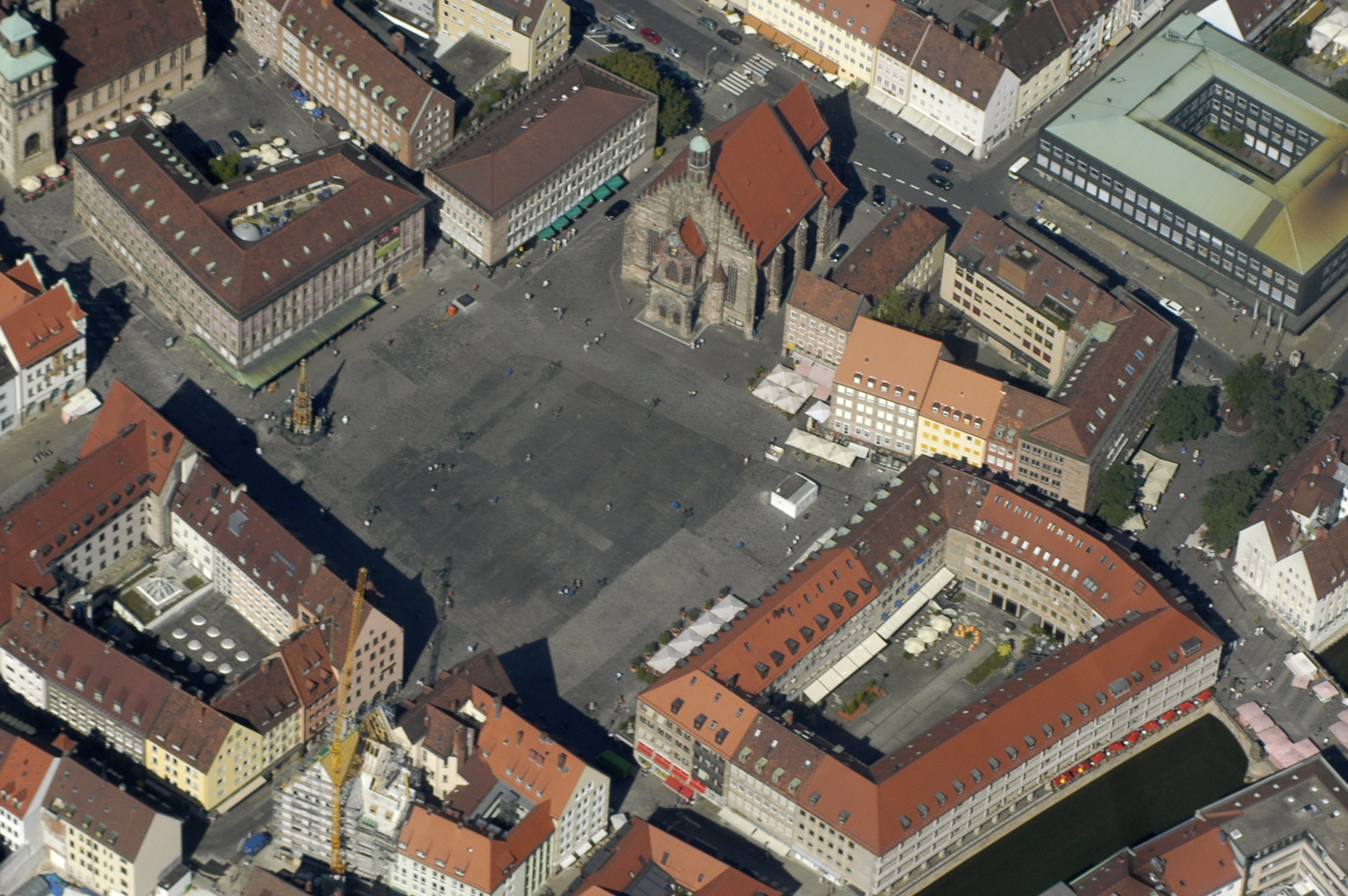 Aerial photo of the Hauptmarkt in Nuremberg